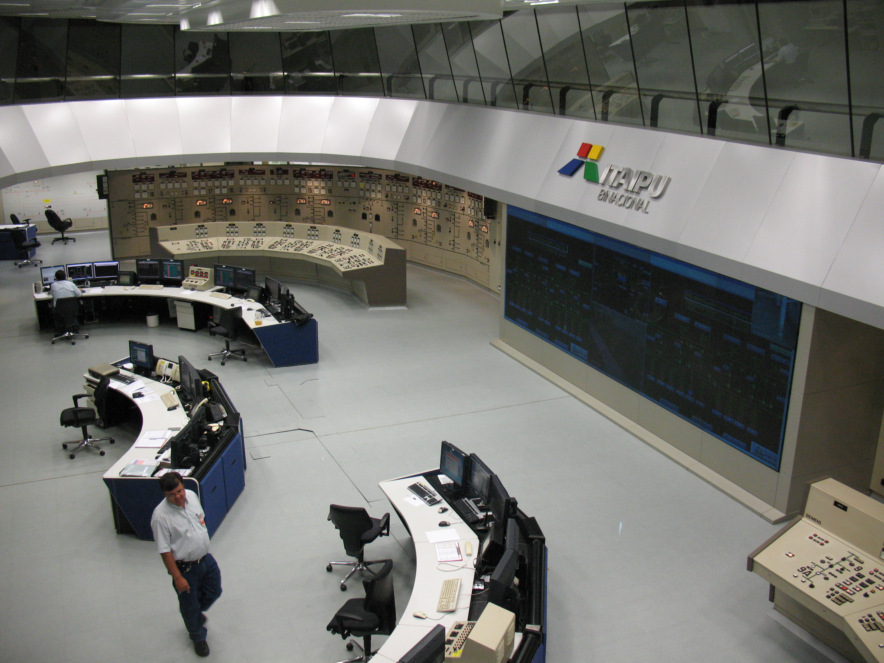 Hydroelectric facility Itaipu Dam: Central Control Room (CCR)